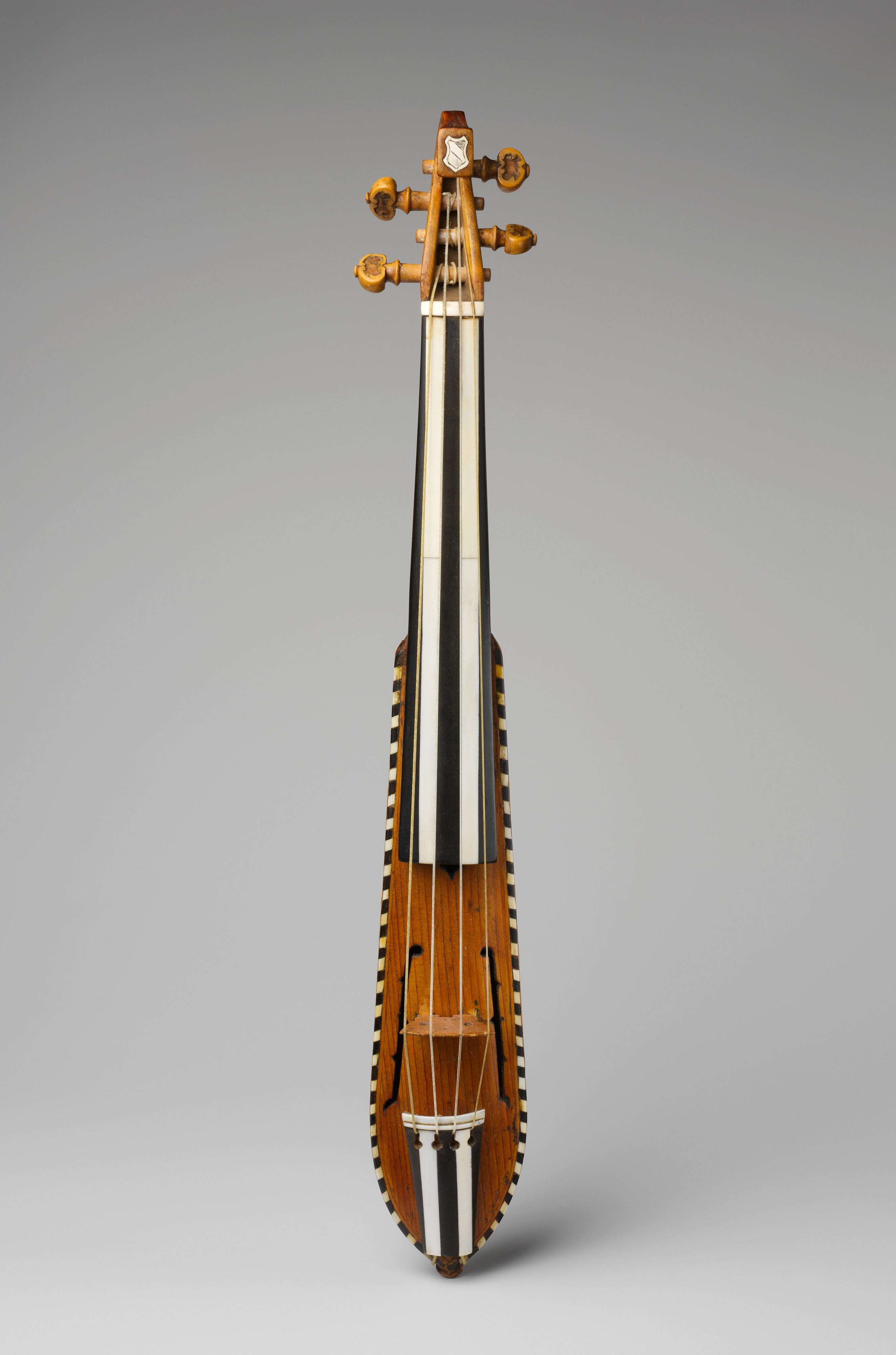 French; Pochette; Chordophone-Lute-bowed-unfretted